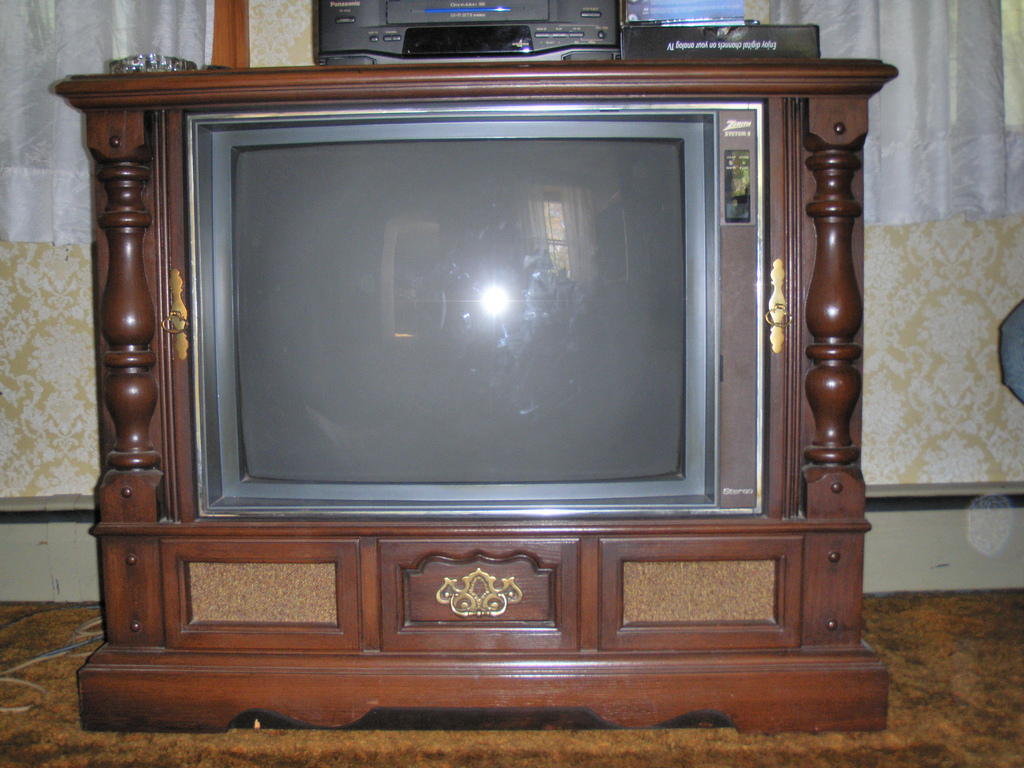 A Zenith System 3 floor model television